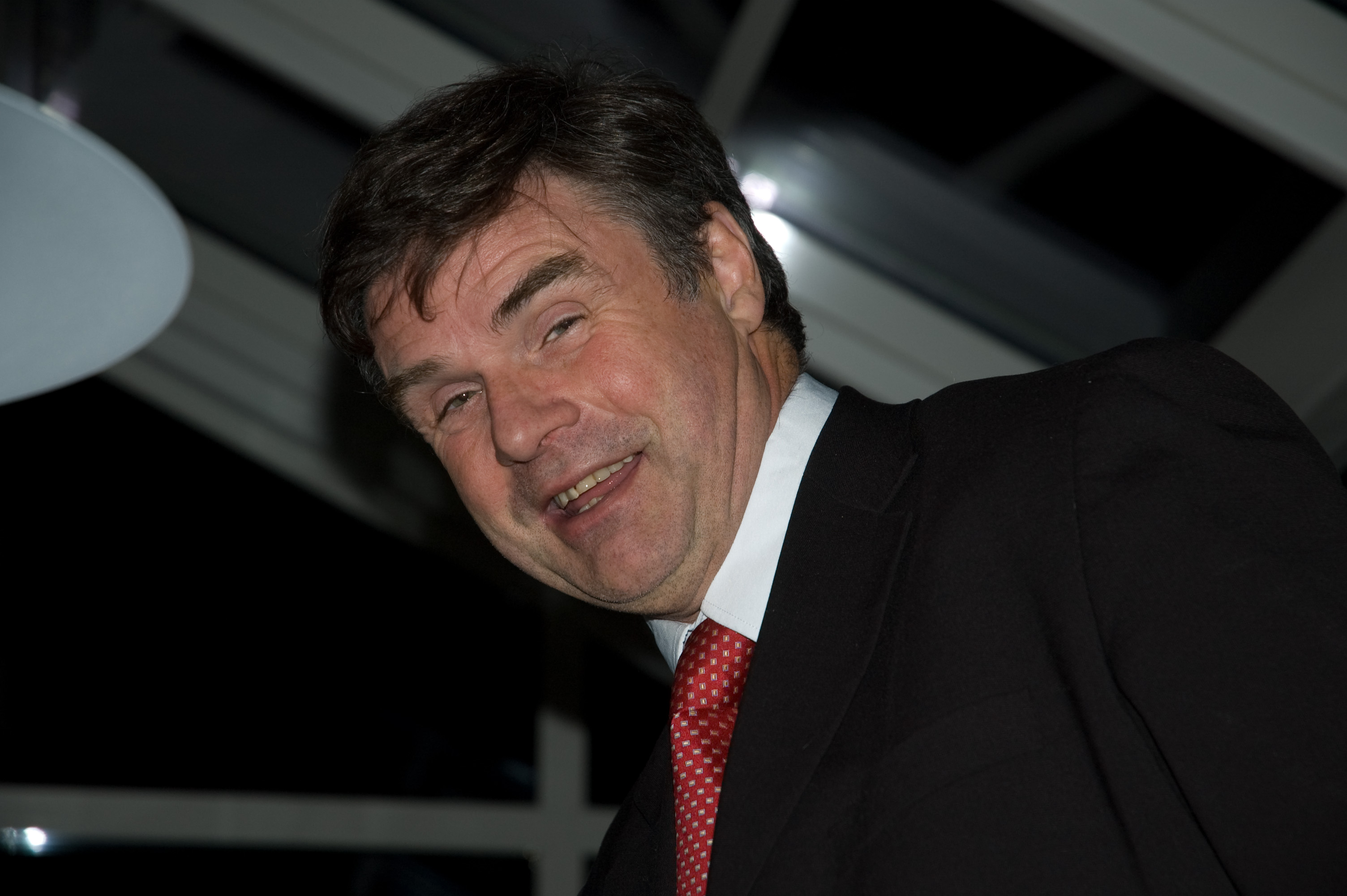 Photography of the danish businessman Finn Helmer